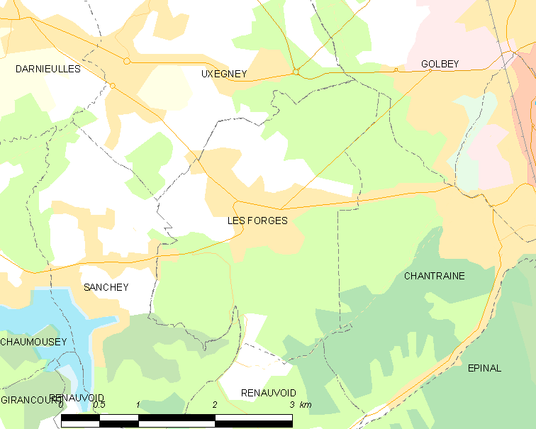 Map of French municipality Les Forges